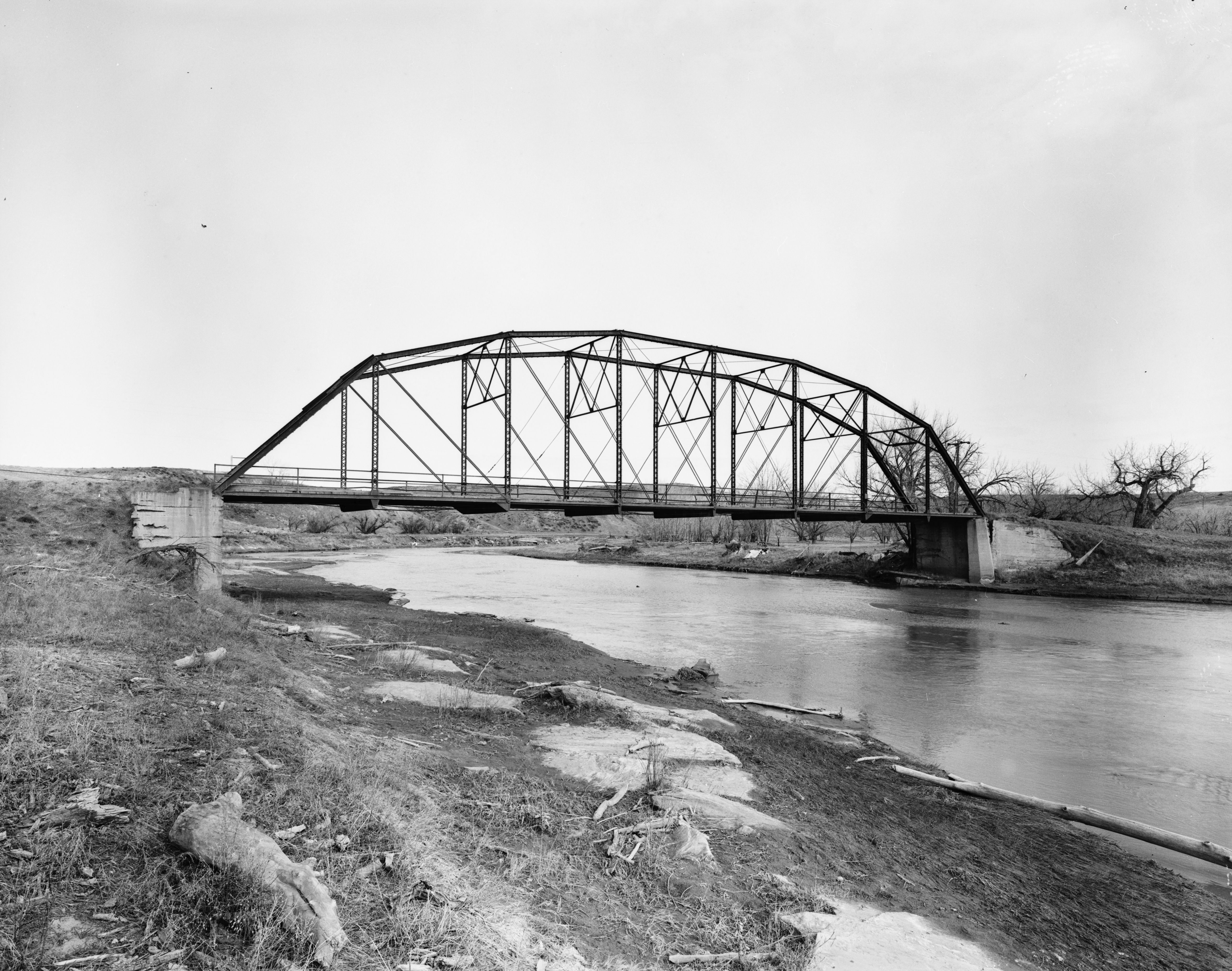 Western side of the EAU Arvada Bridge, which carries County Road CN3-38 over the Powder River near Arvada in Sheridan County, Wyoming, United States. Built in 1914, this Parker through truss bridge is listed on the National Register of Historic Places.